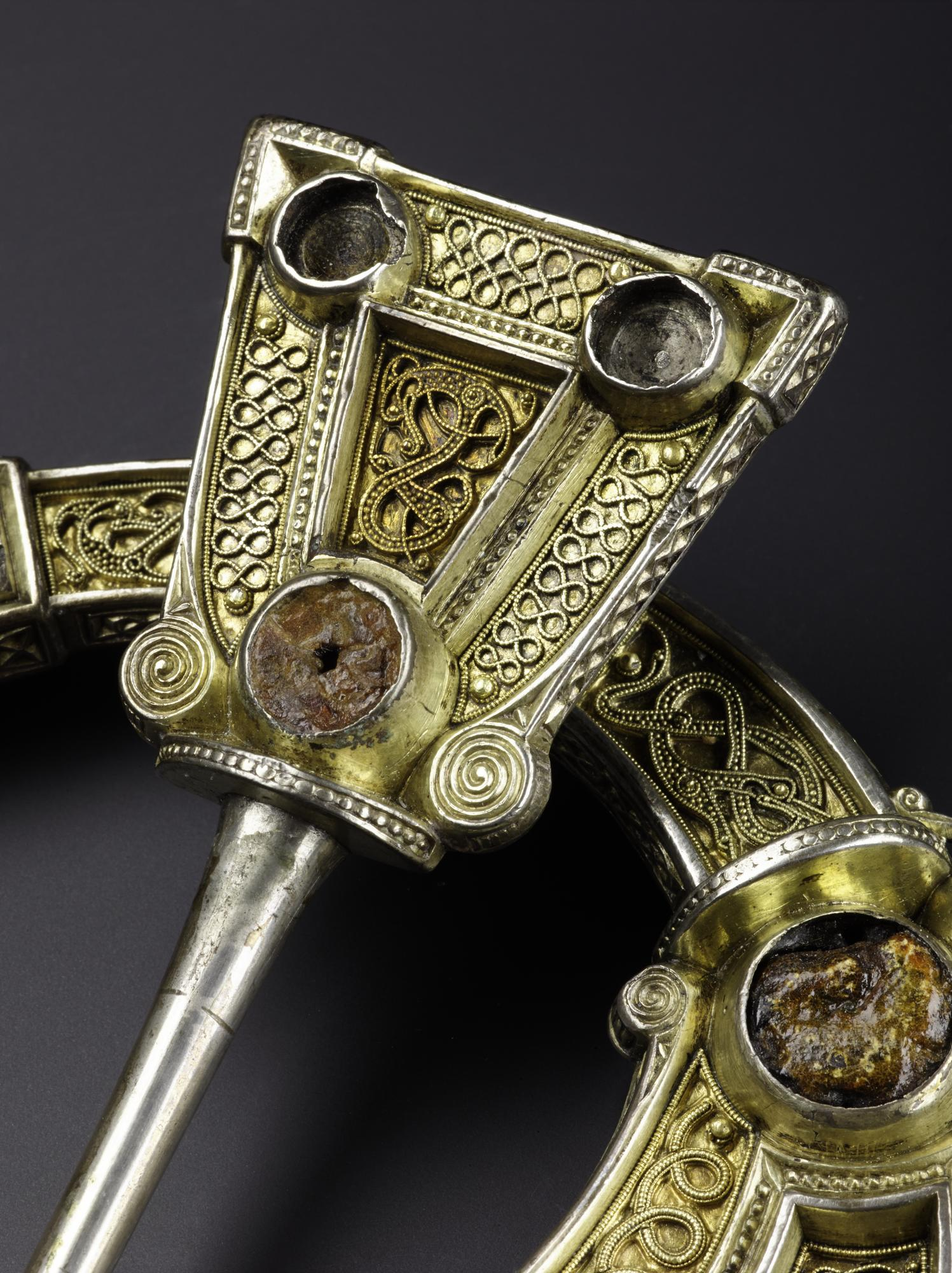 This file was uploaded as part of a partnership between Wikimedia UK and the National Museum of Scotland. This tag does not indicate the copyright status of the attached work. A normal copyright tag is still required. See Commons:Licensing. This work is free and may be used by anyone for any purpose. If you wish to use this content, you do not need to request permission as long as you follow any licensing requirements mentioned on this page.